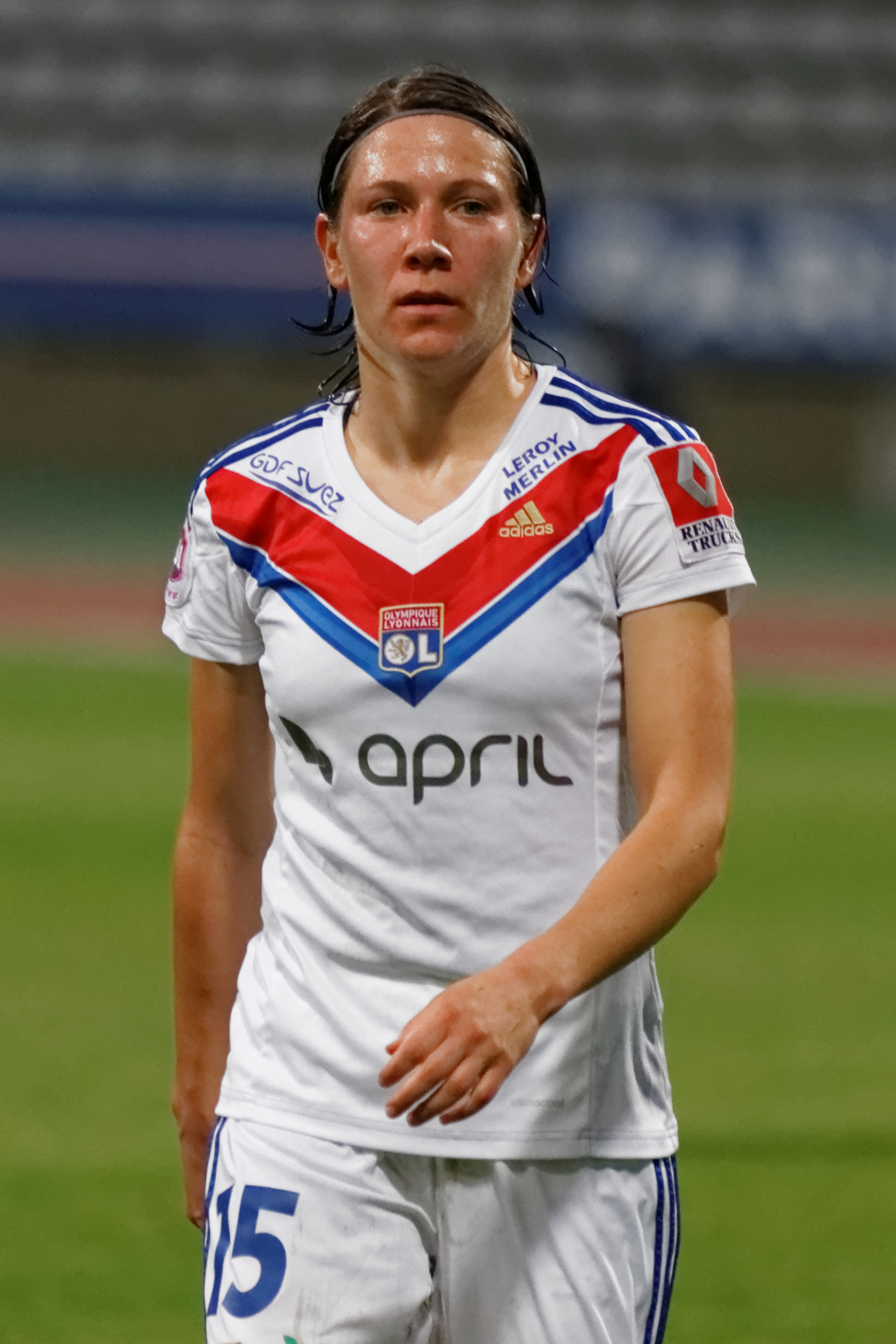 PSG-Lyon, September 29th, 2013.